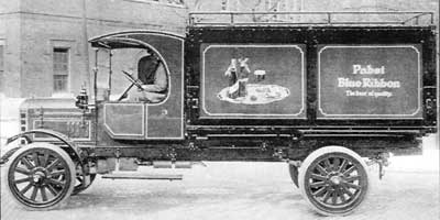 1918 Sterling Beer Wagon Abresch body for Bapst Brewery